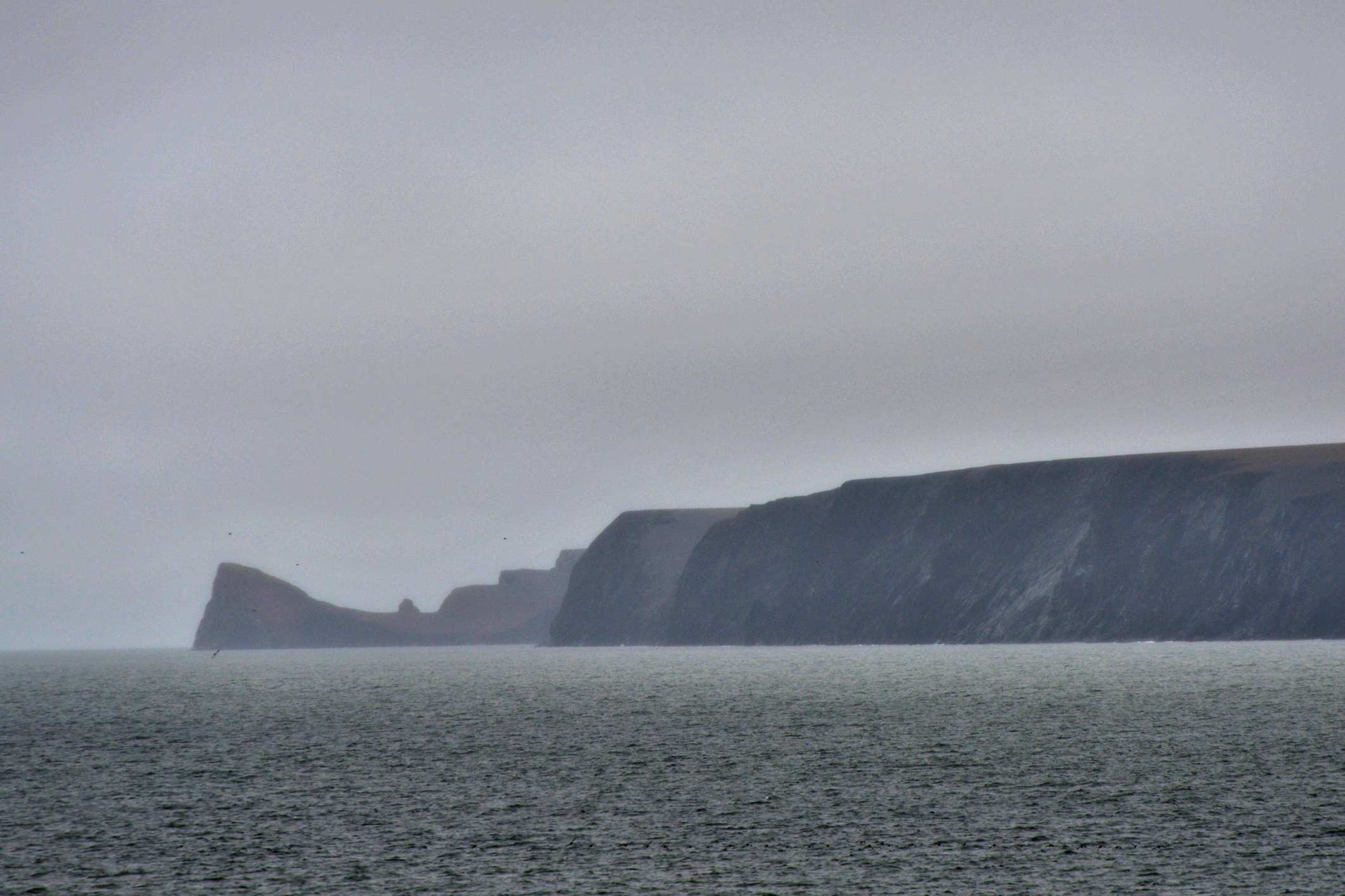 Belkovsky Island, northwest coast (New Siberian Islands, Russia; 75°50’N, 135°41’E)